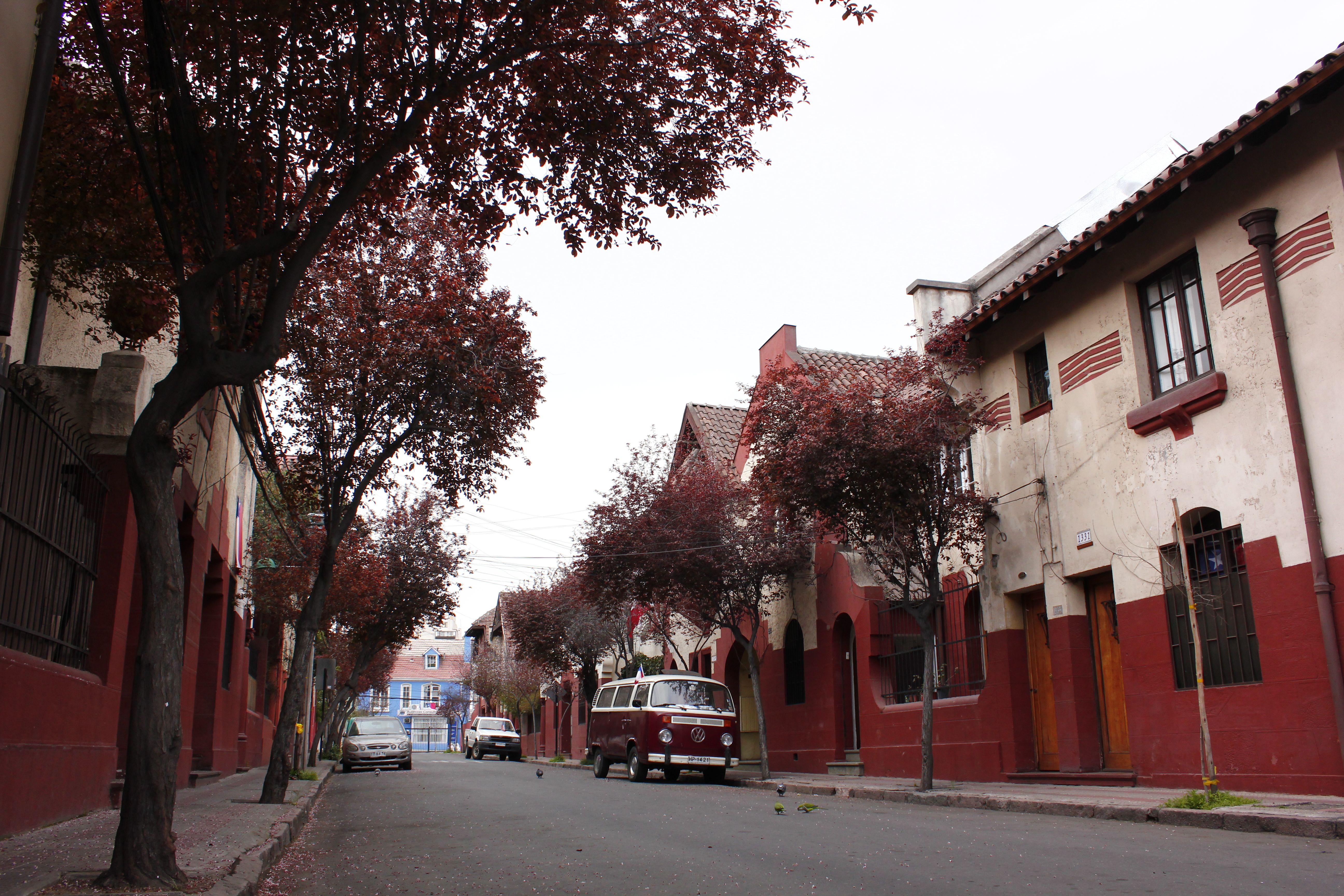 This is a photo of a national monument in Chile: 239